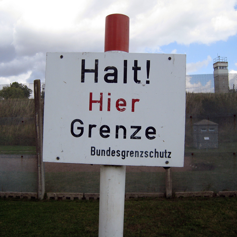 West German border warning sign in front of East German border installations at Schlagsdorf, Mecklenburg-Vorpommern